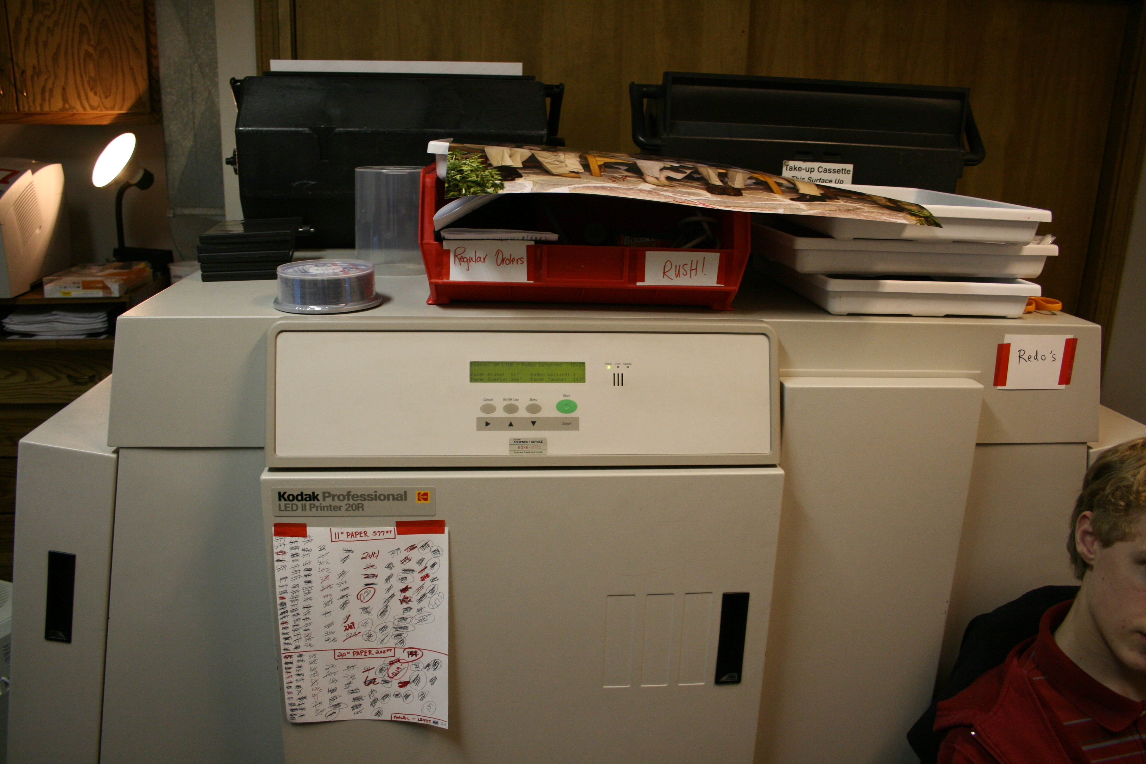 Kodak Professional LED II Printer 20R